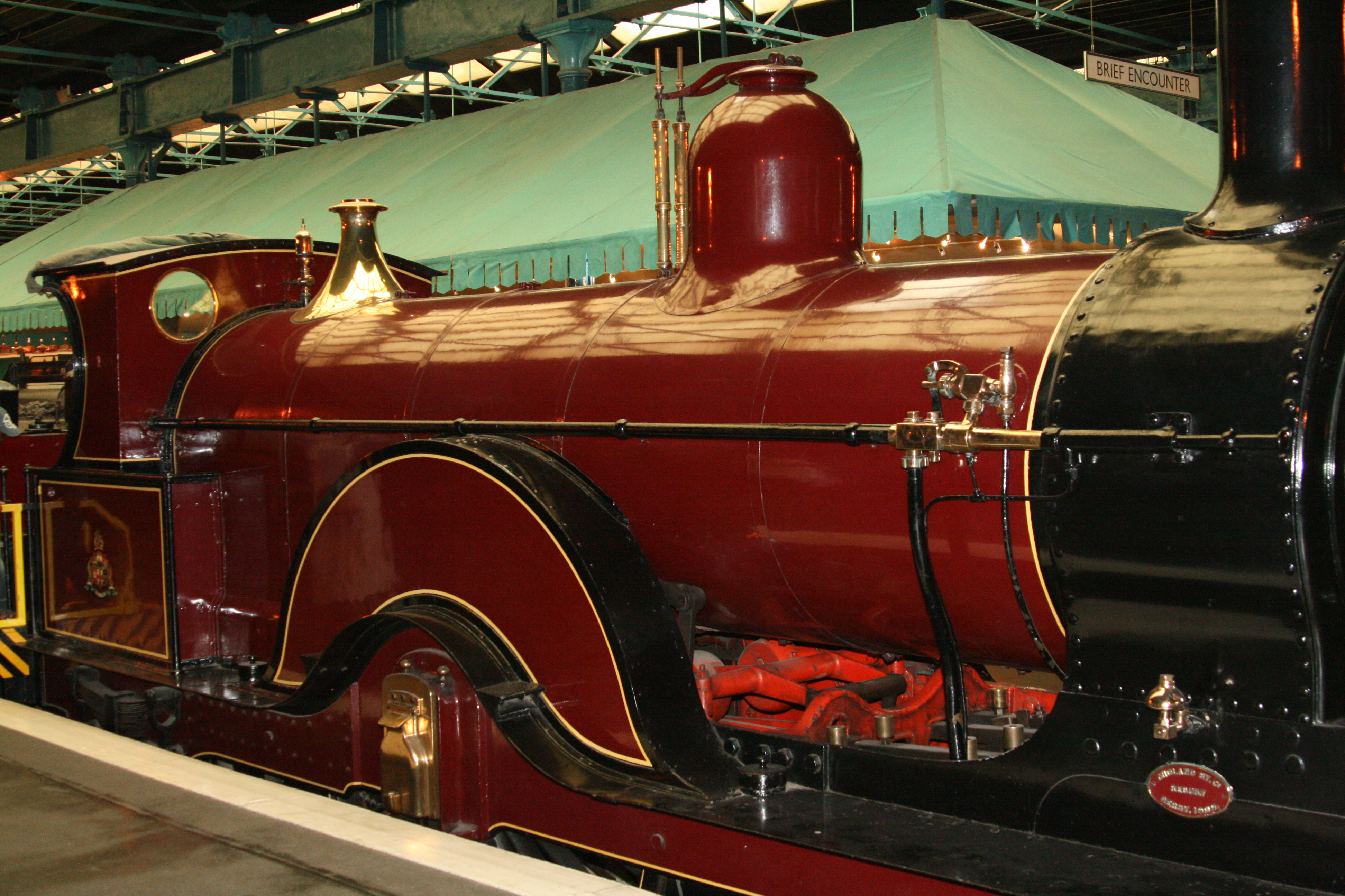 In and around York Midland Railway 155 Class - 673